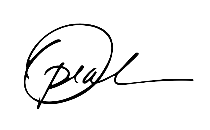 The signature logo of The Oprah Winfrey Show.